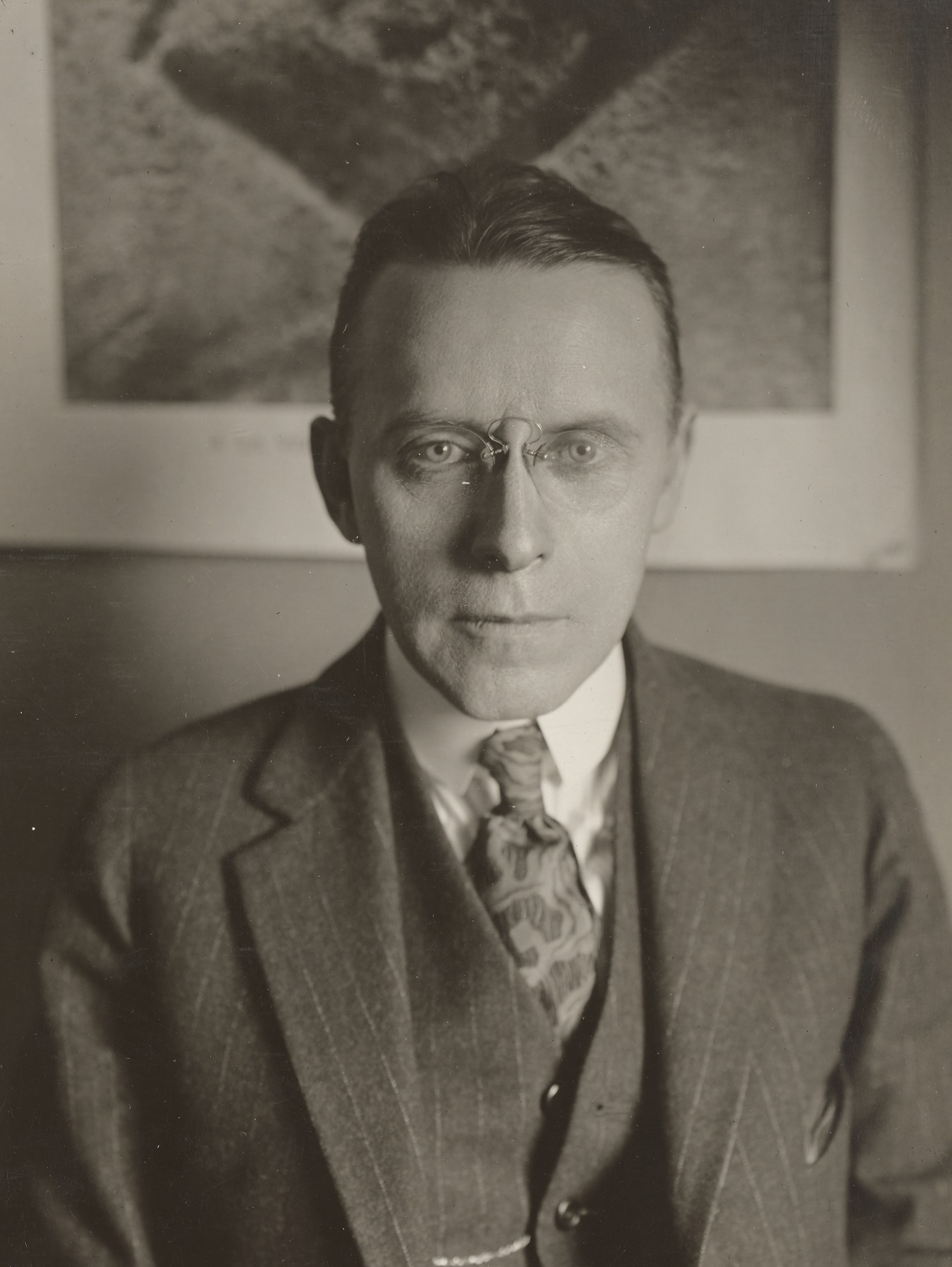 Edgar Sisson C.P.I. Washington D.C.